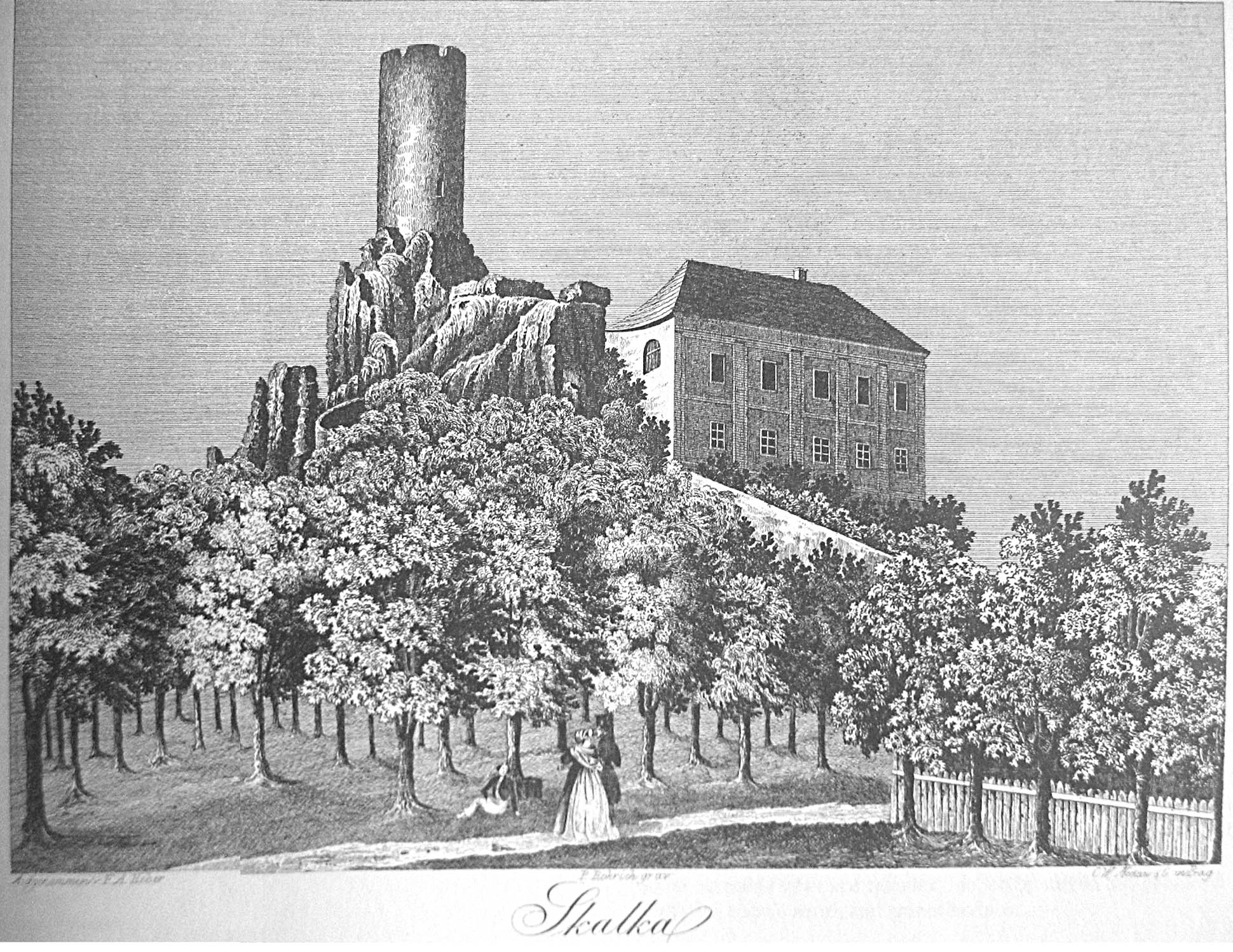 The Castle Skalka in Czech Republic in 1844